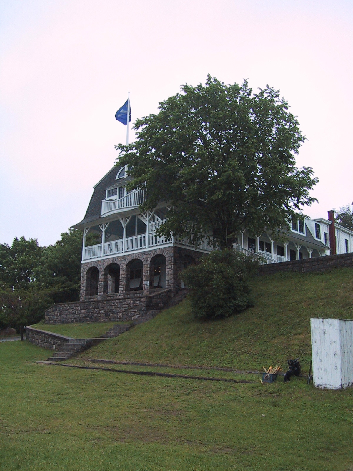 Personal digital photo released to public domain